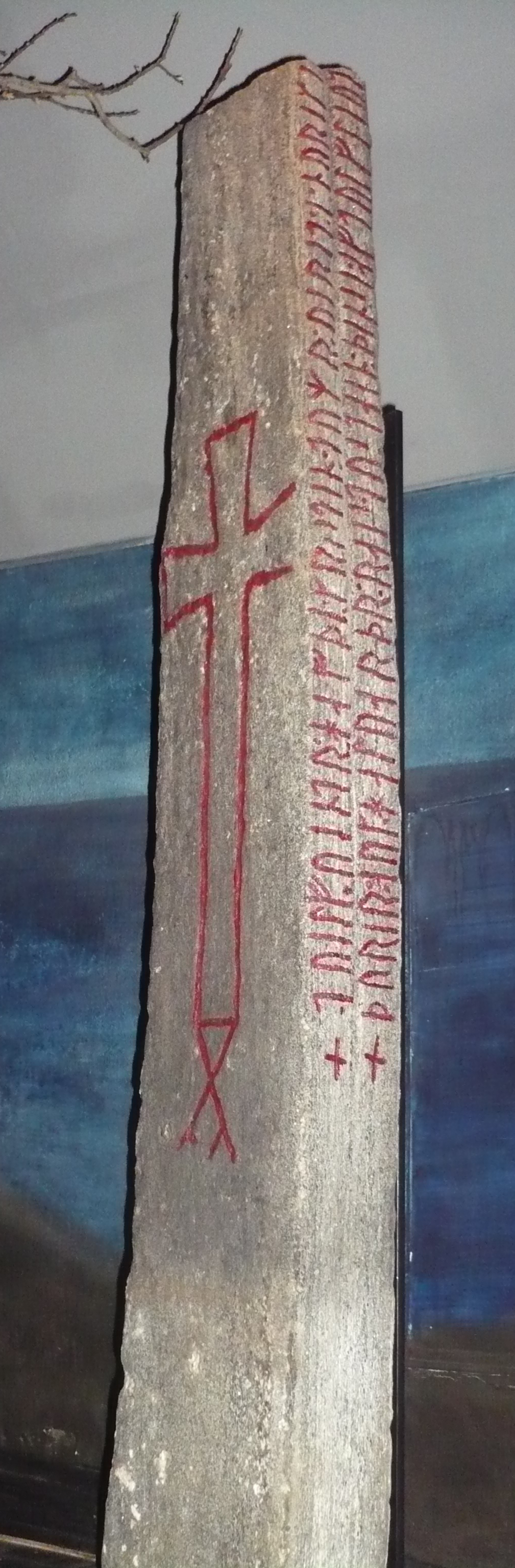 Kulisteinen in the Scientific museum in Trondheim